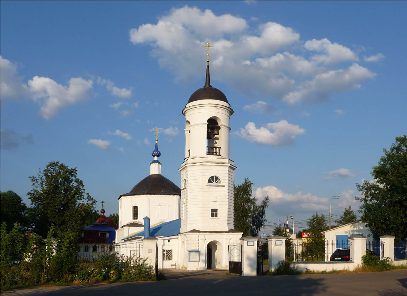 The Church of the Nativity of the Theotokos. The village of Aniskino, Shchyolkovsky District, Moscow oblast, Russia (1738-1742, belfry - 1808).